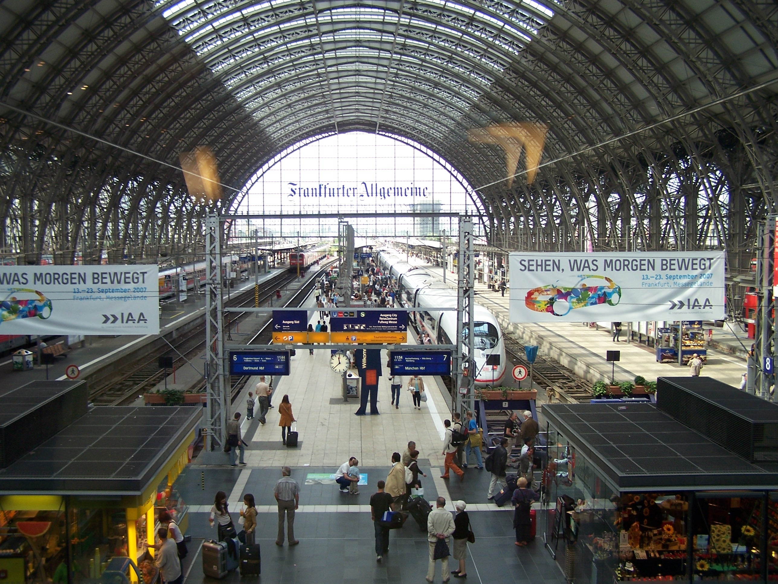 view on the platforms in the hall of Frankfurt (Main) – central station